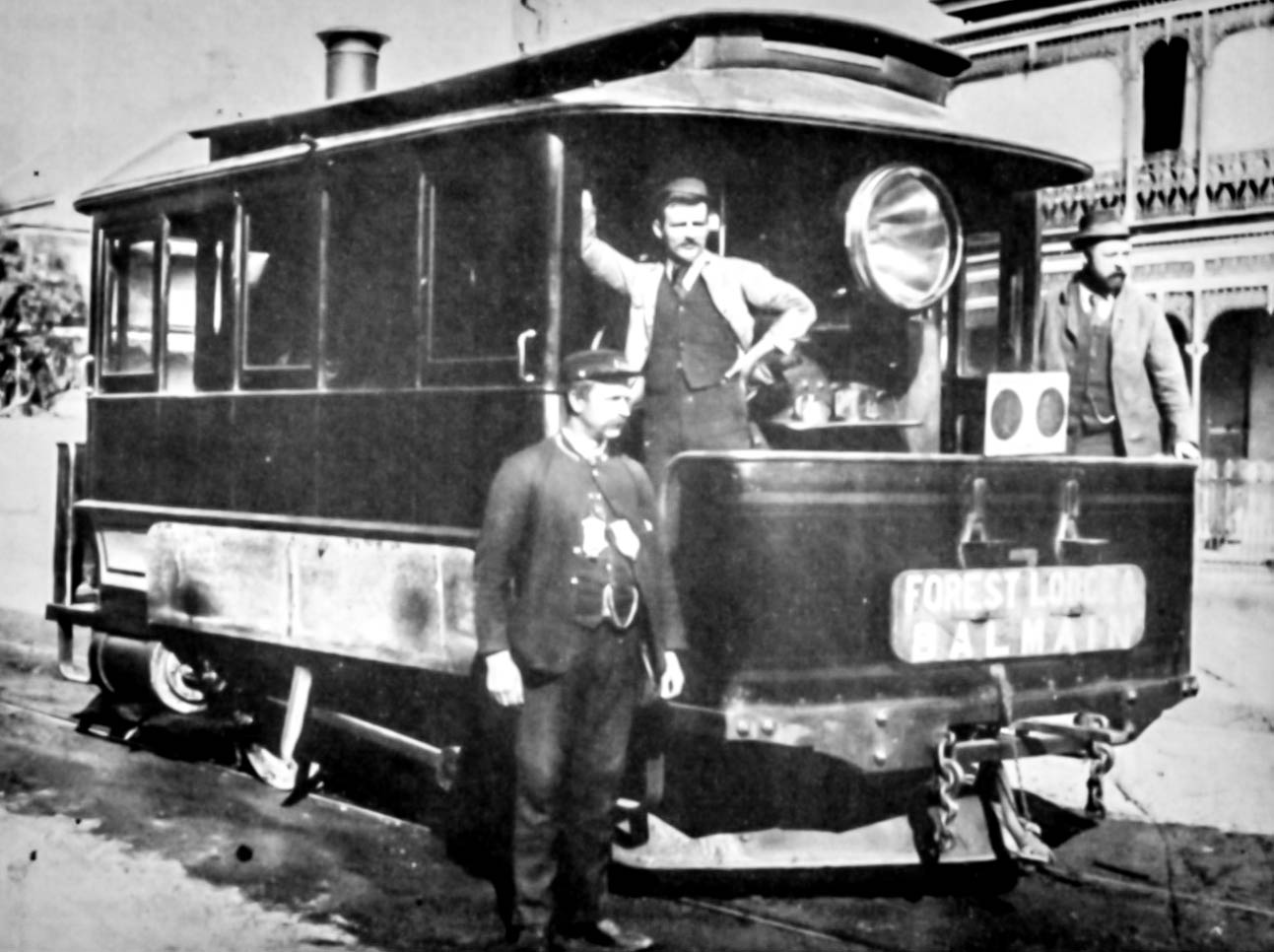 NSWGT Tram Motor No. 7 at Balmain